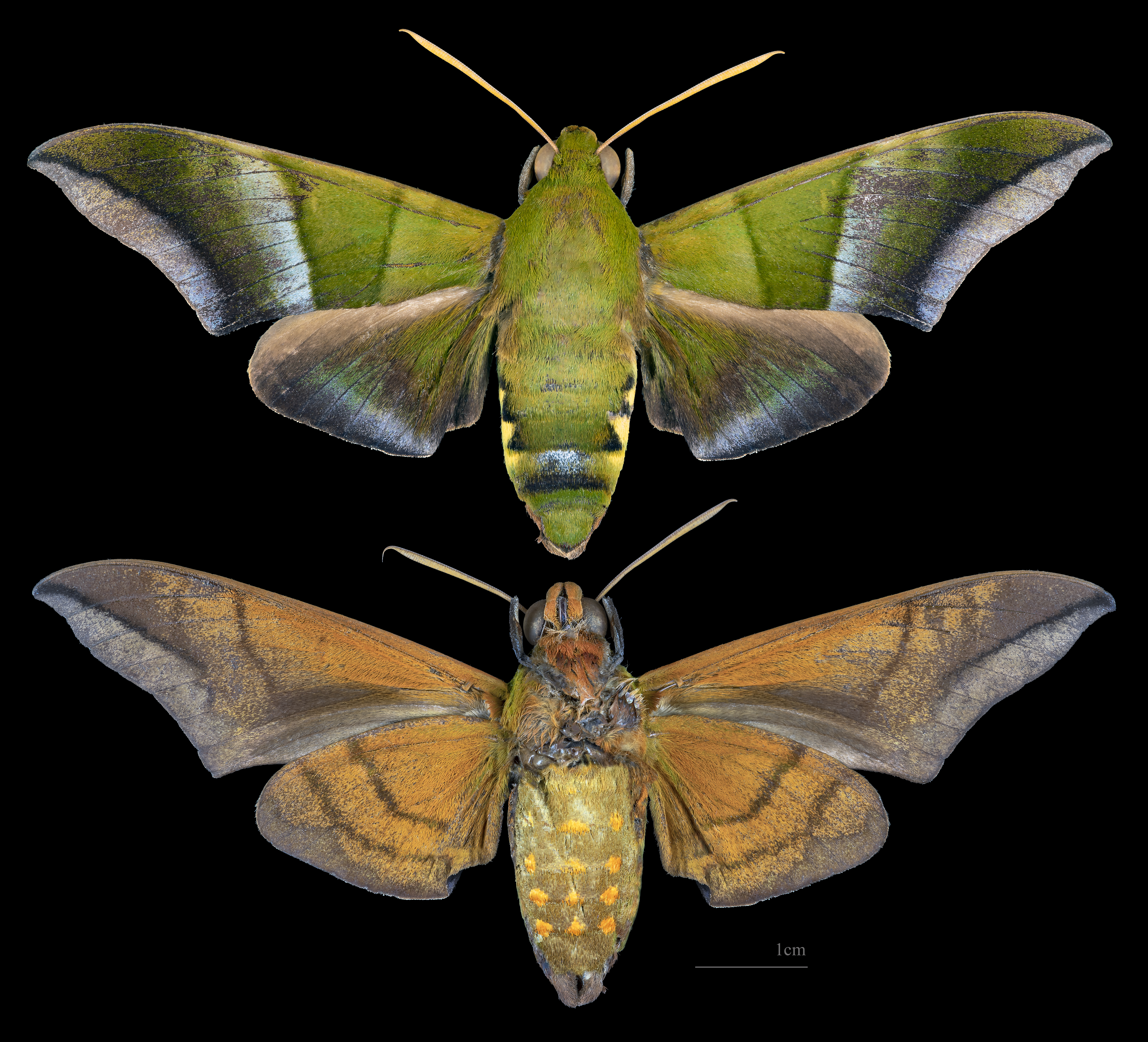 Oryba achemenides - Two views of same specimen Collection of the Mathematician Laurent Schwartz